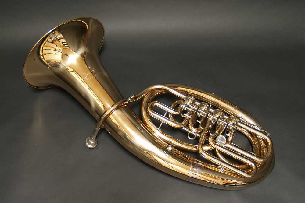 Kaiserbariton in B Miraphone 56L